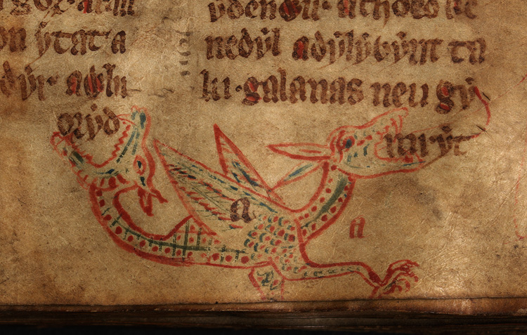 A Welsh text of the Laws of Hywel Dda, including a number of illustrations. The manuscript contains 115 folios made from parchment, and the wooden cover dates from the Middle Ages.